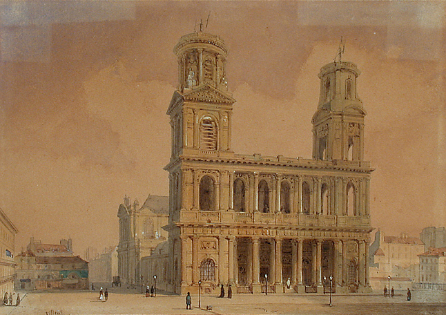 View of the Église Saint-Sulpice